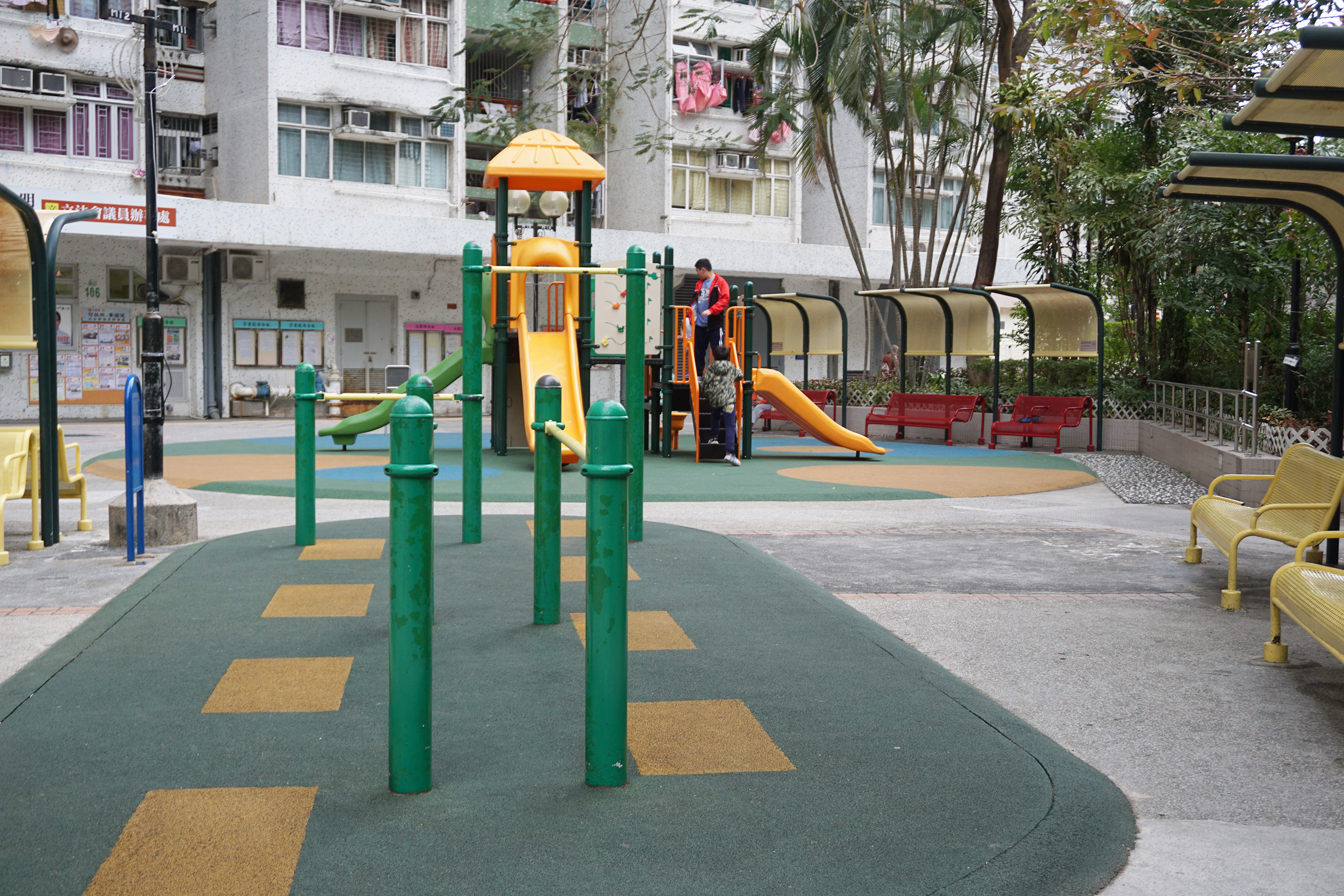 Hing Tin Estate in Lam Tin, Hong Kong.